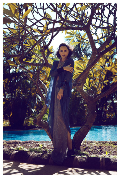 Justyna Steczkowska